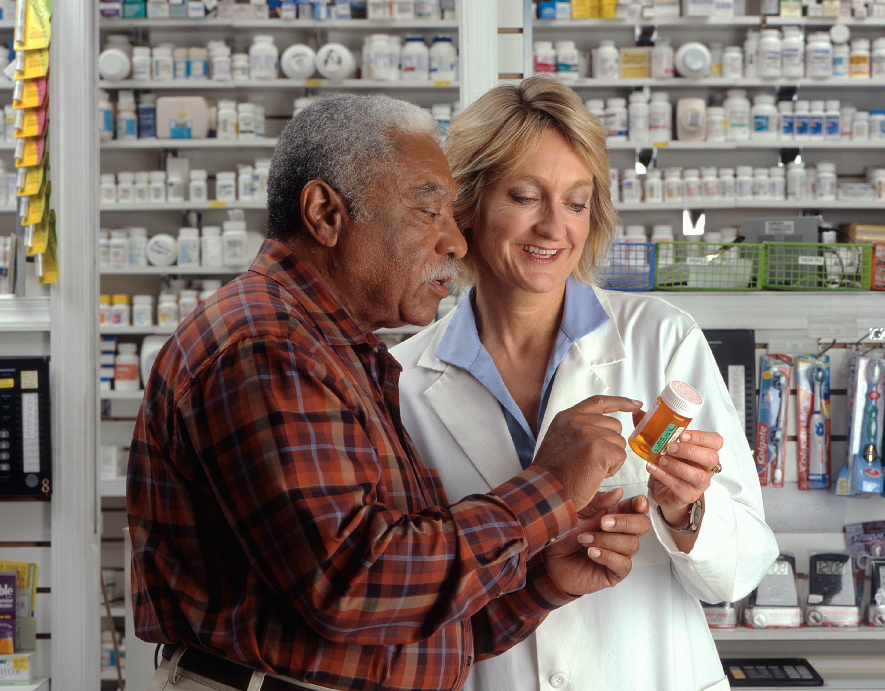 Title Man Consults with Pharmacist Description An older African-American man talks to a Caucasian female pharmacist as she explains his prescription. Topics/Categories Locations -- Clinic/Hospital People -- Adult People -- Health Professional and Patient Type Color, Photo Source National Cancer Institute